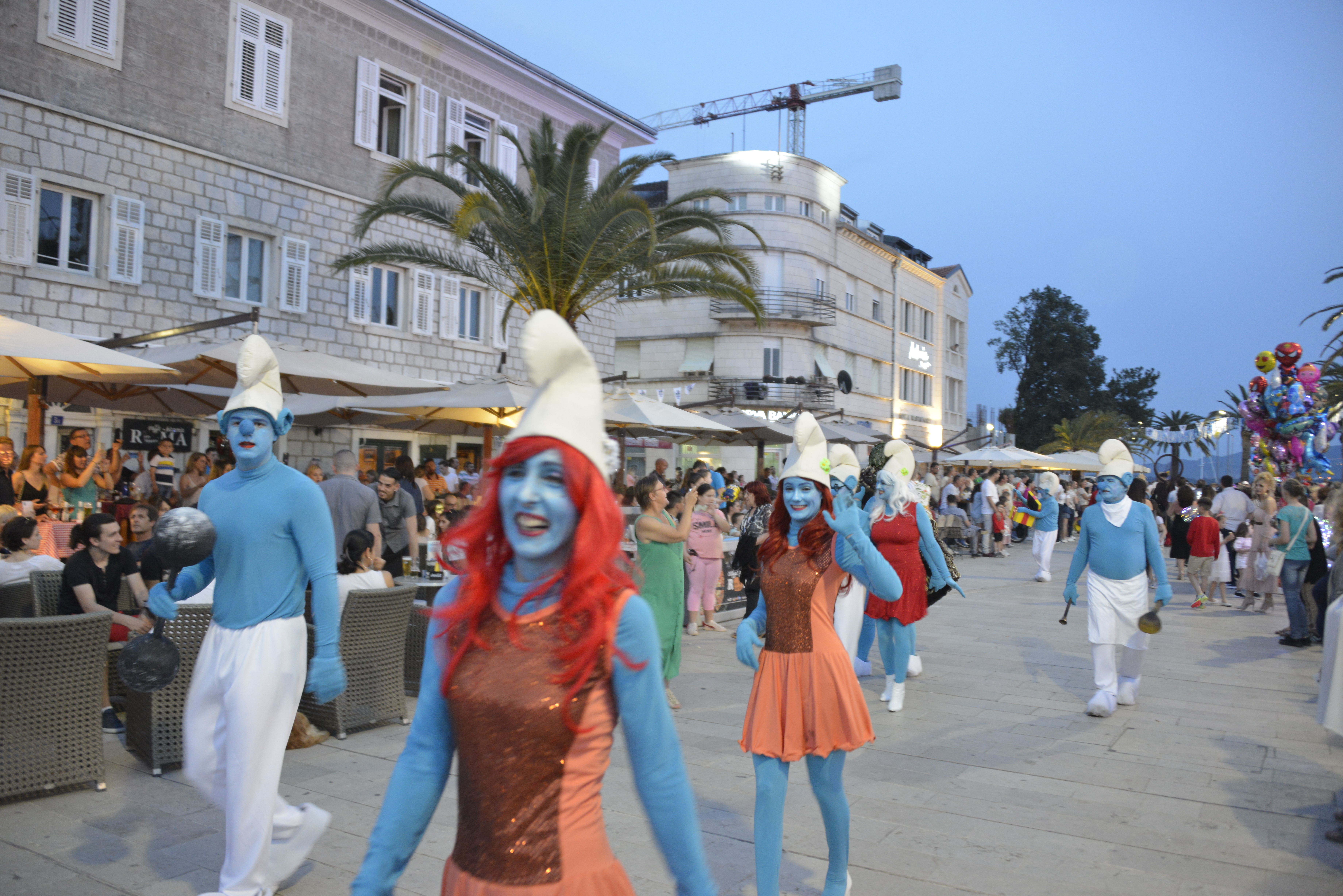 Carnival in Tivat in 2019, with the main stage in front of the ship "Jadran"